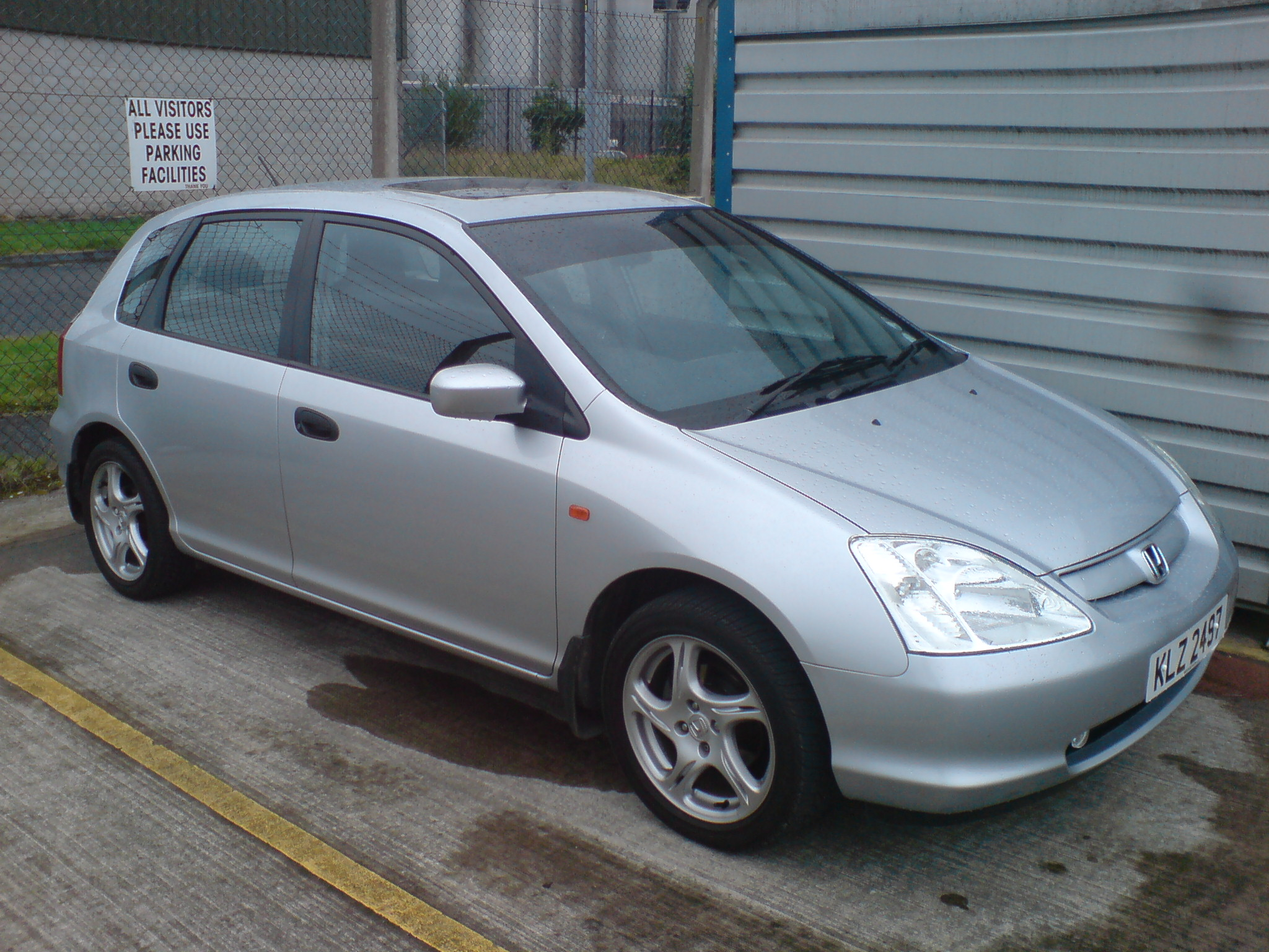 Northern Irish Spec 2002 Honda Civic 1.6 Vtec